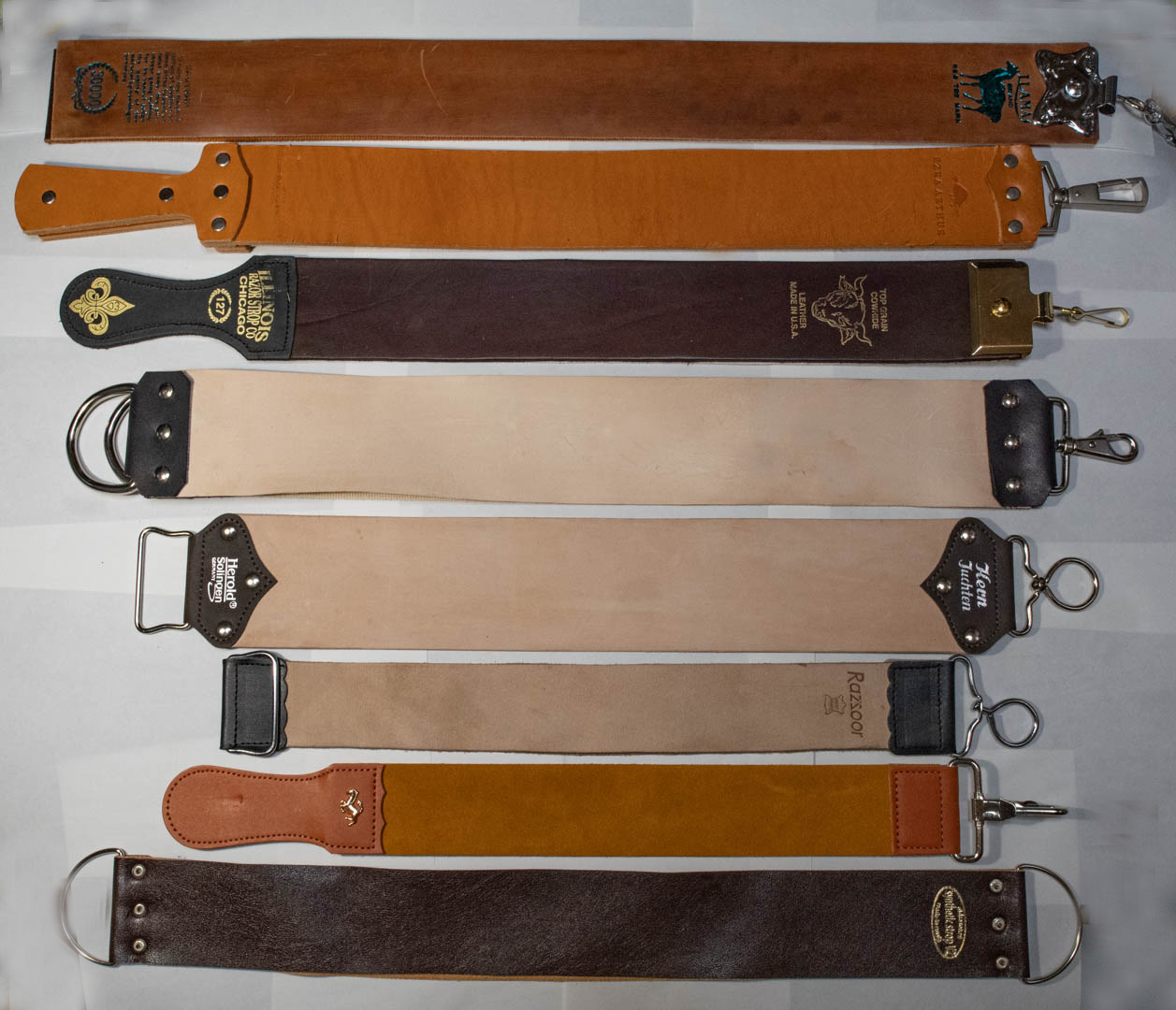 Strops with cordovan, bridle leather, latigo, red kangaroo, cowhide, buffaro, and with artificial leather